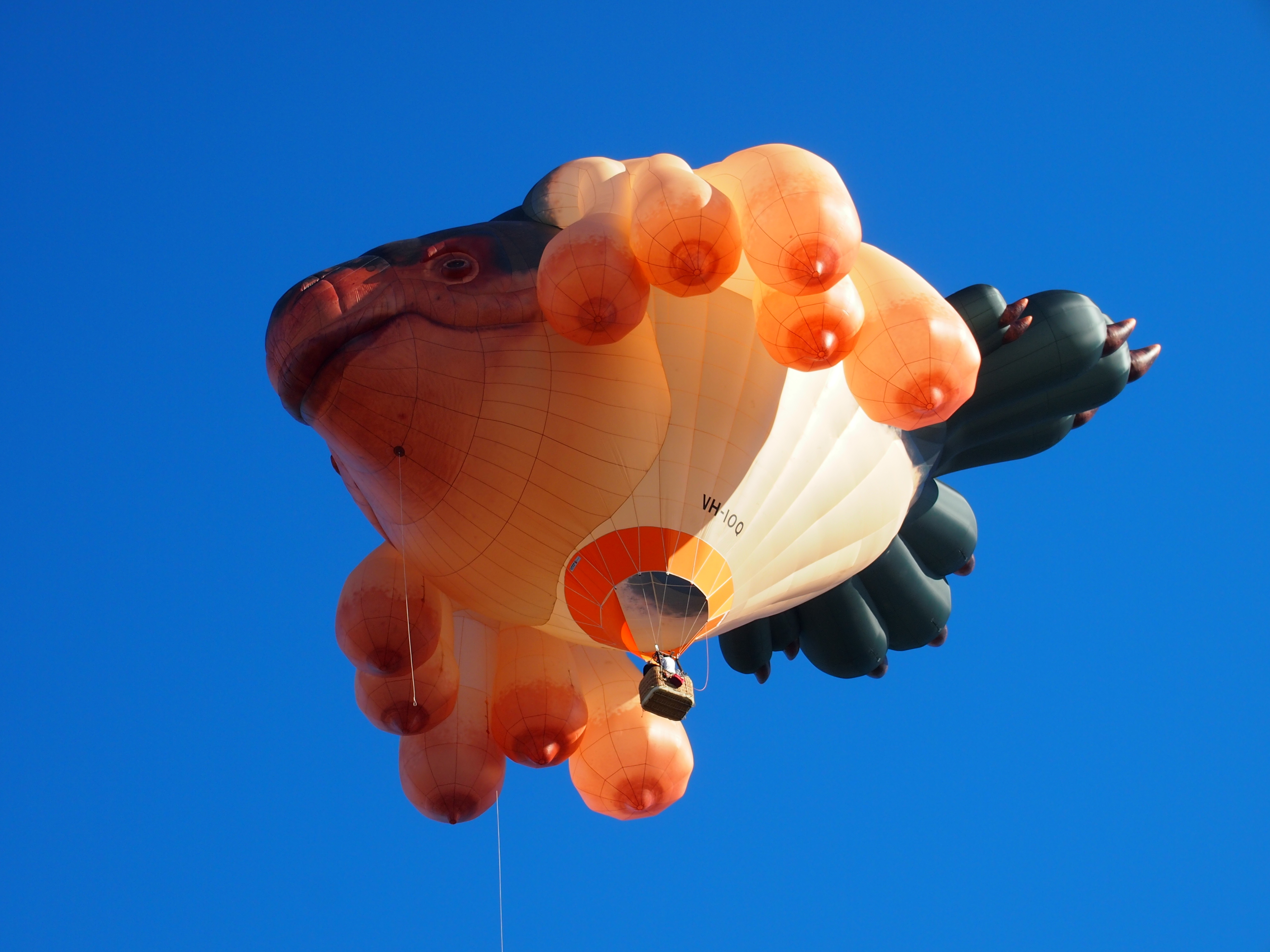 The balloon "Skywhale" designed by Patricia Piccinini shortly after taking off on its first flight over Canberra